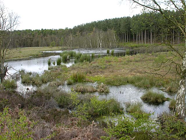 Shemmy Moss. A floating sphagnum bog and a Site of Special Scientific Interest. A great place for dragonflies and grass snakes.